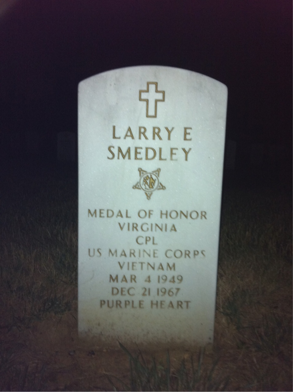 Grave of Larry E. Smedley at Arlington National Cemetery